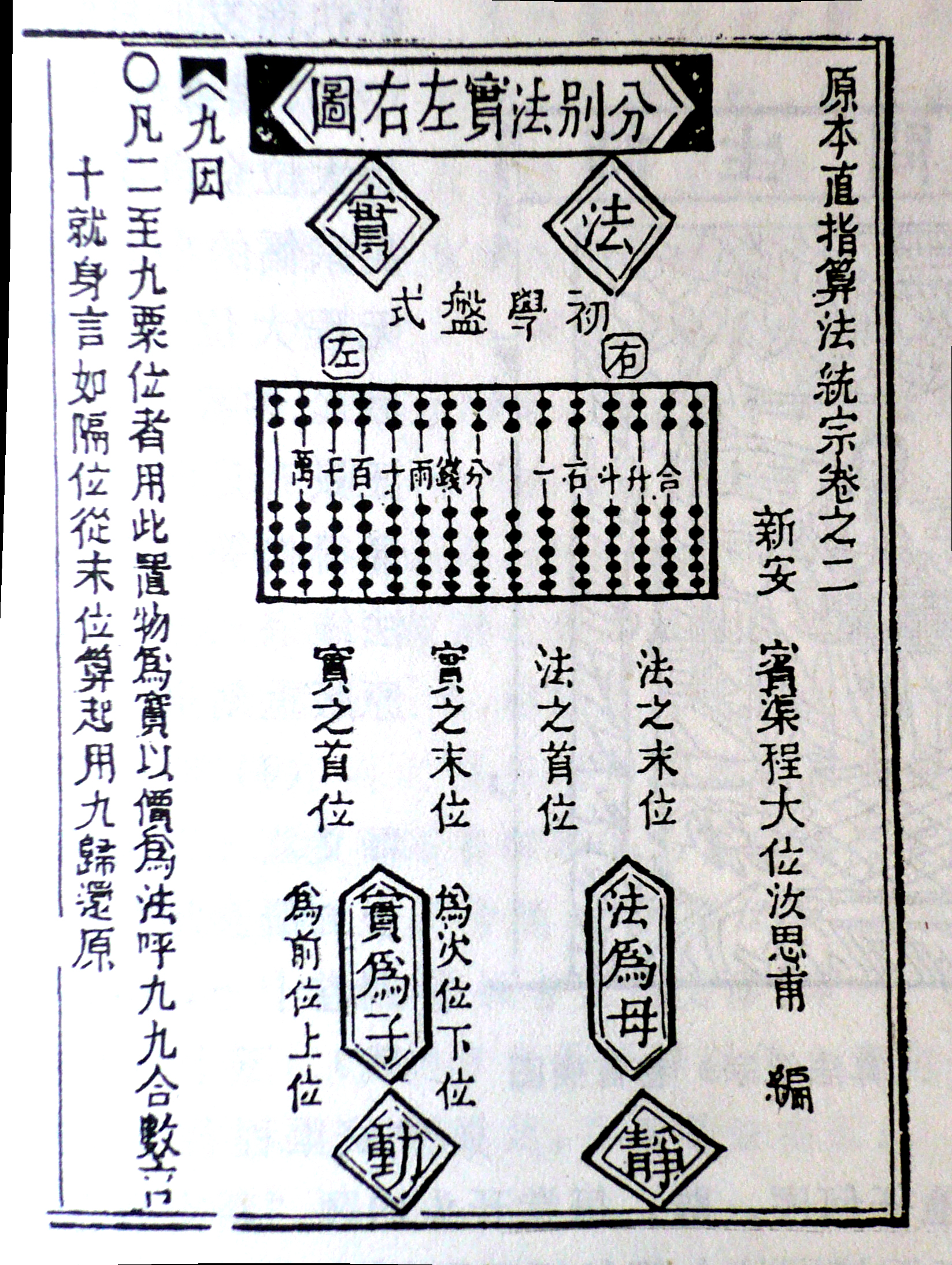 Ming dynasty Cheng Dawei's suanpan diagram